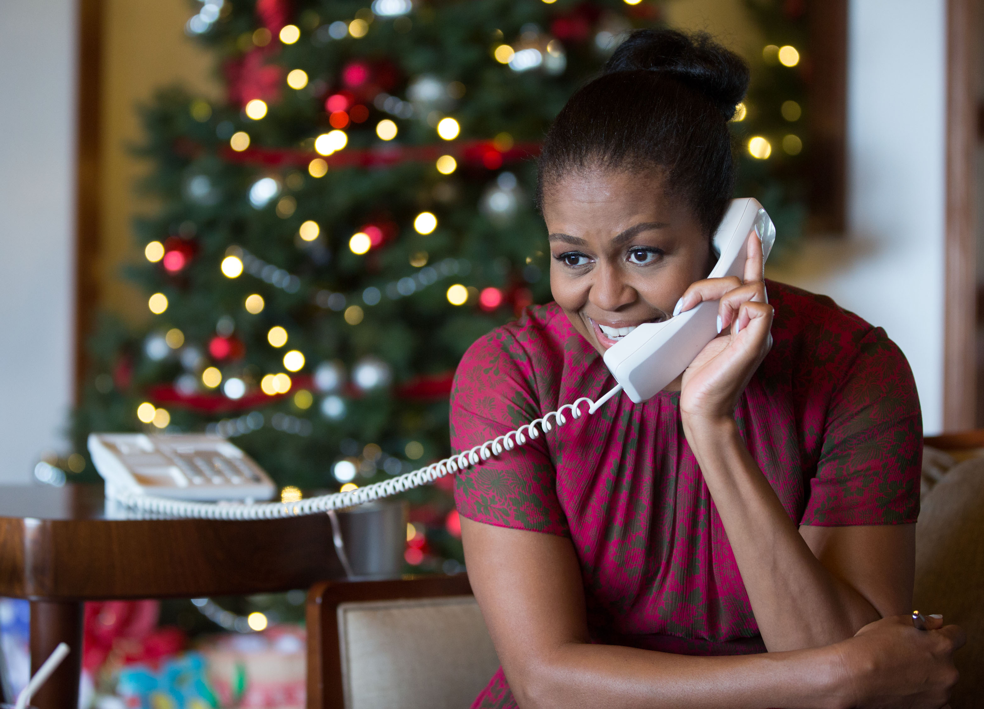 First Lady Michelle Obama reacts while talking on the phone to children across the country as part of the annual NORAD Tracks Santa program. Mrs. Obama answered the phone calls from Kailua, Hawaii, Christmas Eve, Dec. 24, 2016. (Official White House Photo by Pete Souza)